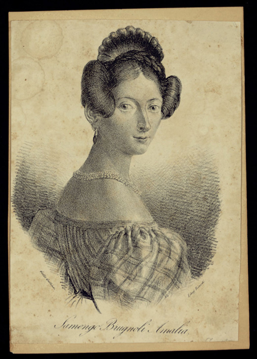 Portrait of Amalia Samengo Brugnoli, dancer (1802-1892), before 1874.